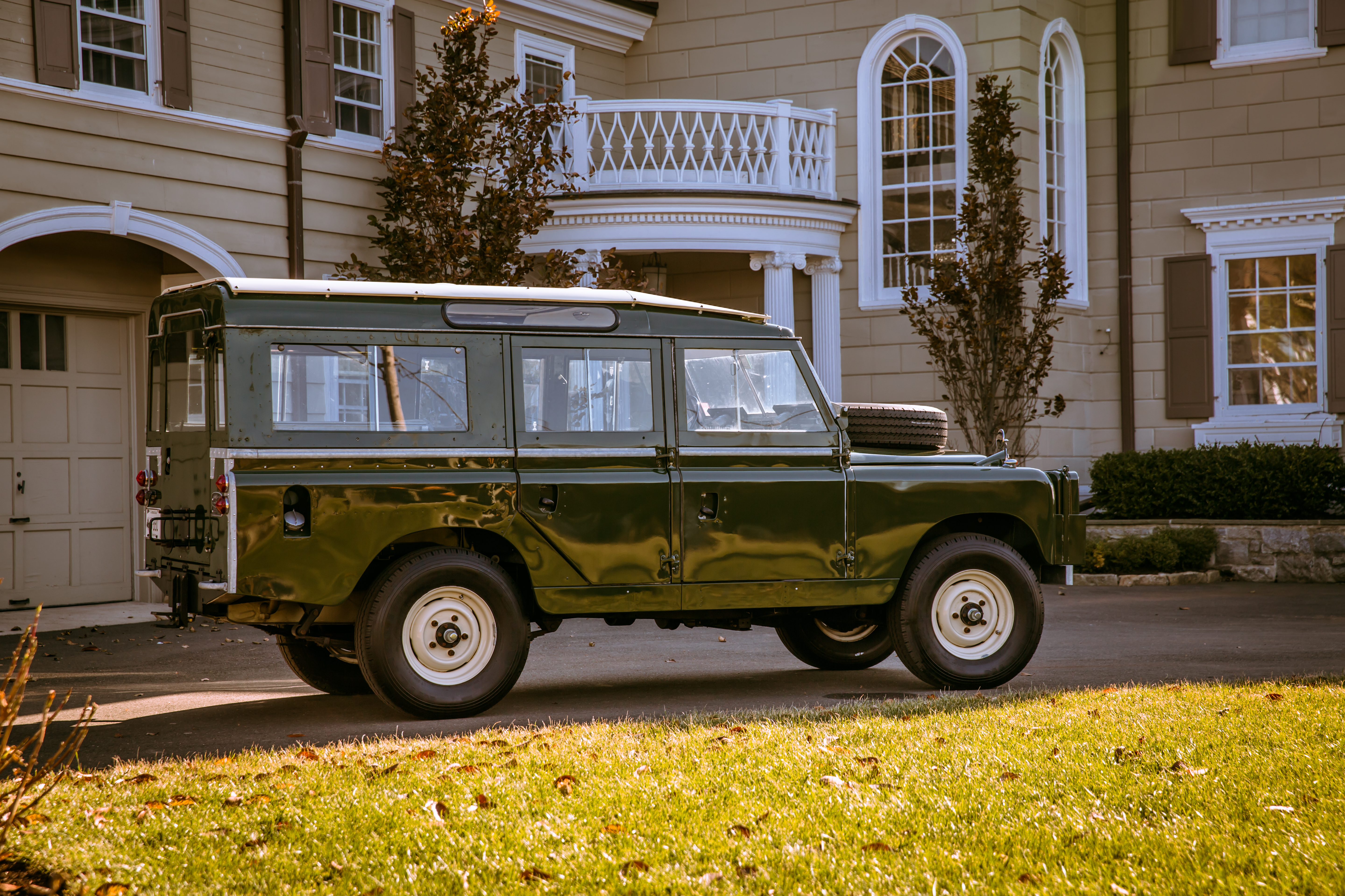 1959 Land Rover Series II Model 109